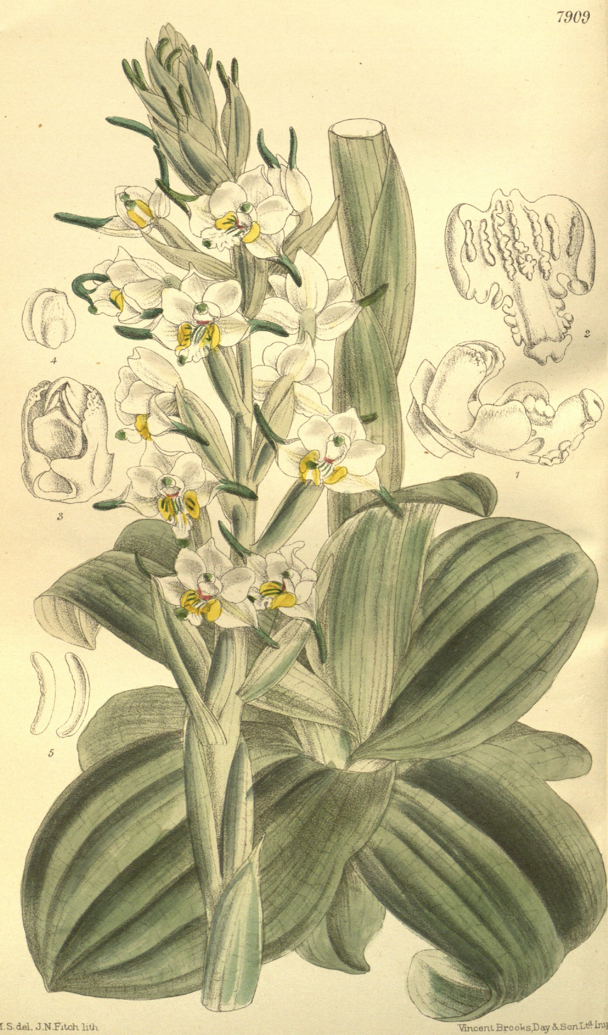 Illustration of Gavilea longibracteata (as syn. Chloraea longibracteata)